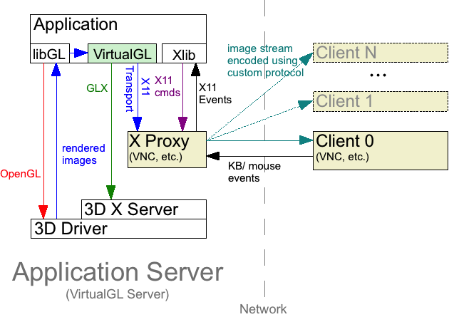 Scheme regarding the software architecture of VirtualGL. Illustrates X11 Image Transport.